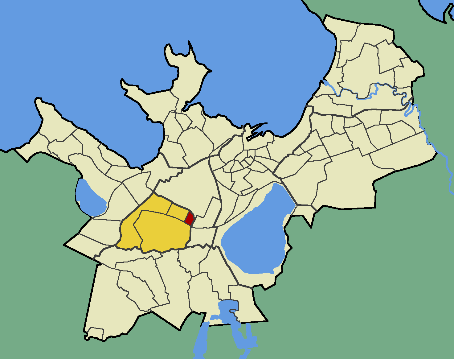 Map of Tallinn (Estonia) with borders of the quarters, Mustamäe district and Siili quarter emphasised